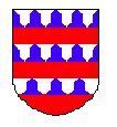 Coat of arms of Enguerrand I of Coucy.